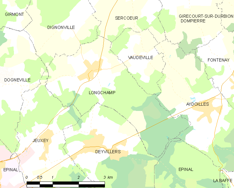 Map of French municipality Longchamp